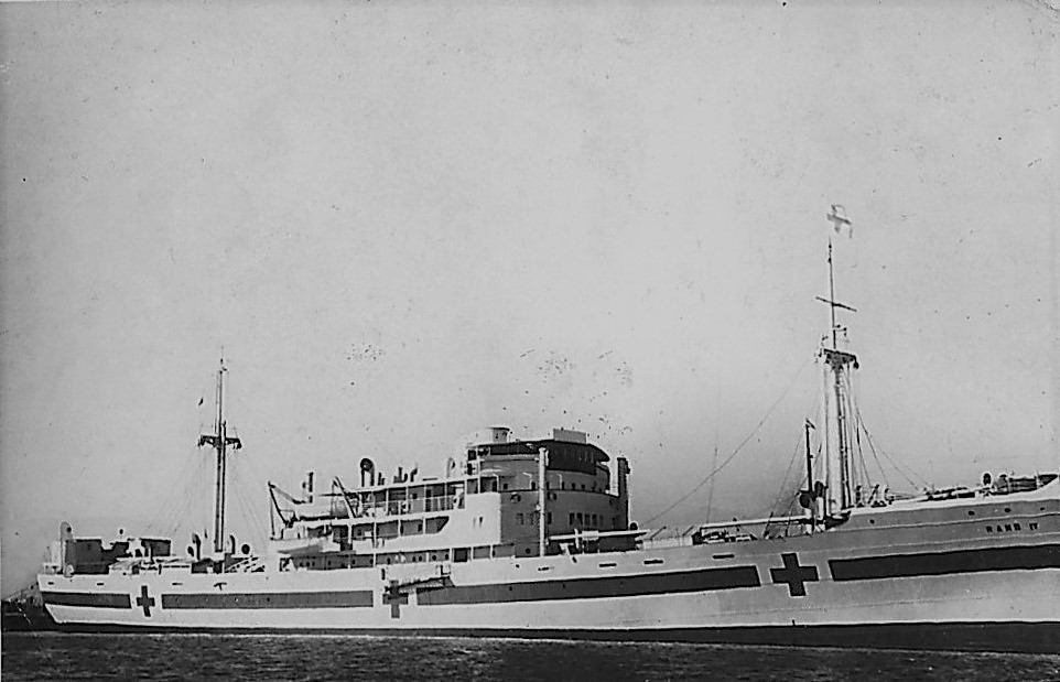 Photo of Ramb IV taken by Private Alfred Soutter